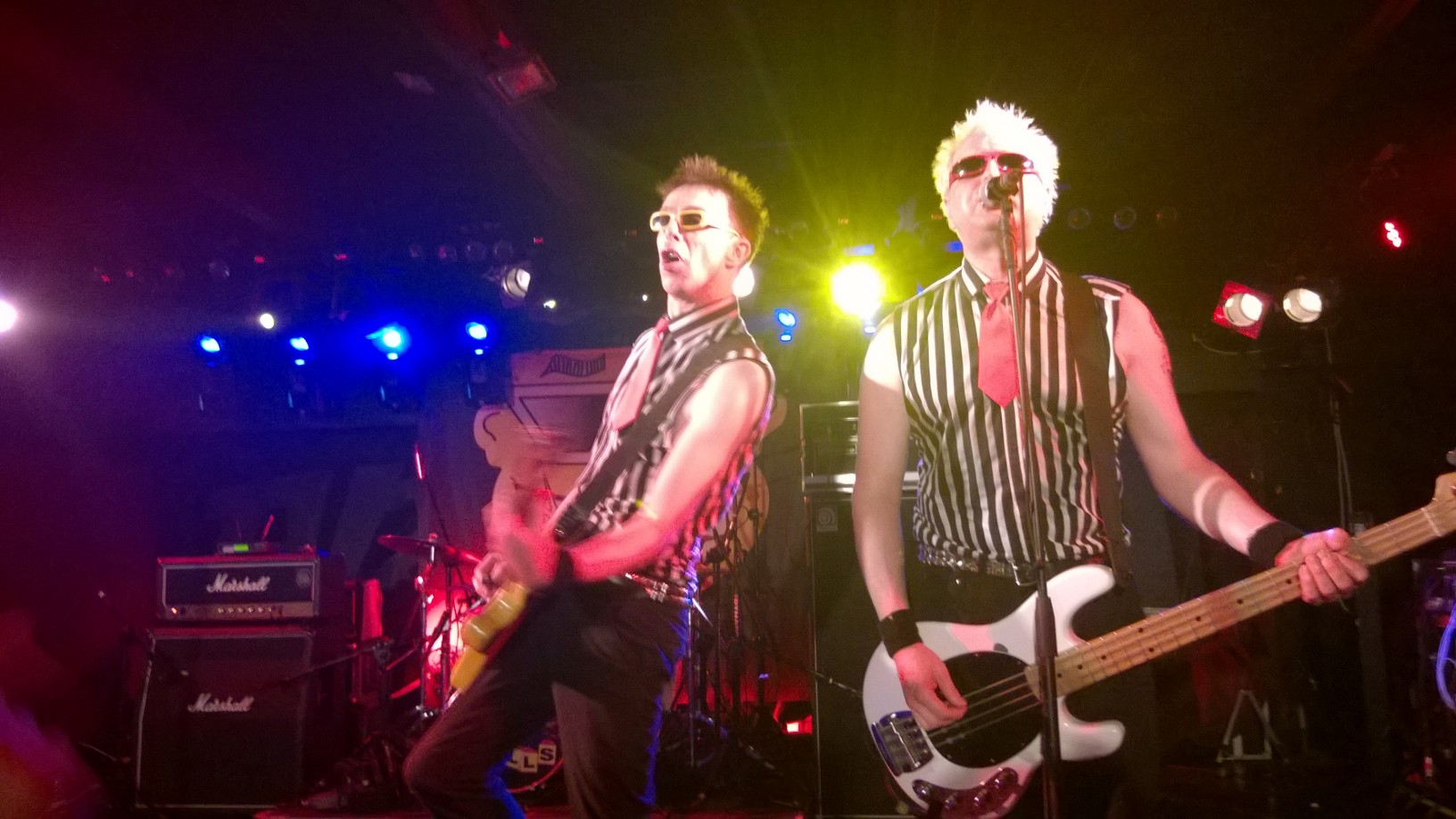 Concert of Toy Dolls, in Warsaw, Poland, 18.10.2014